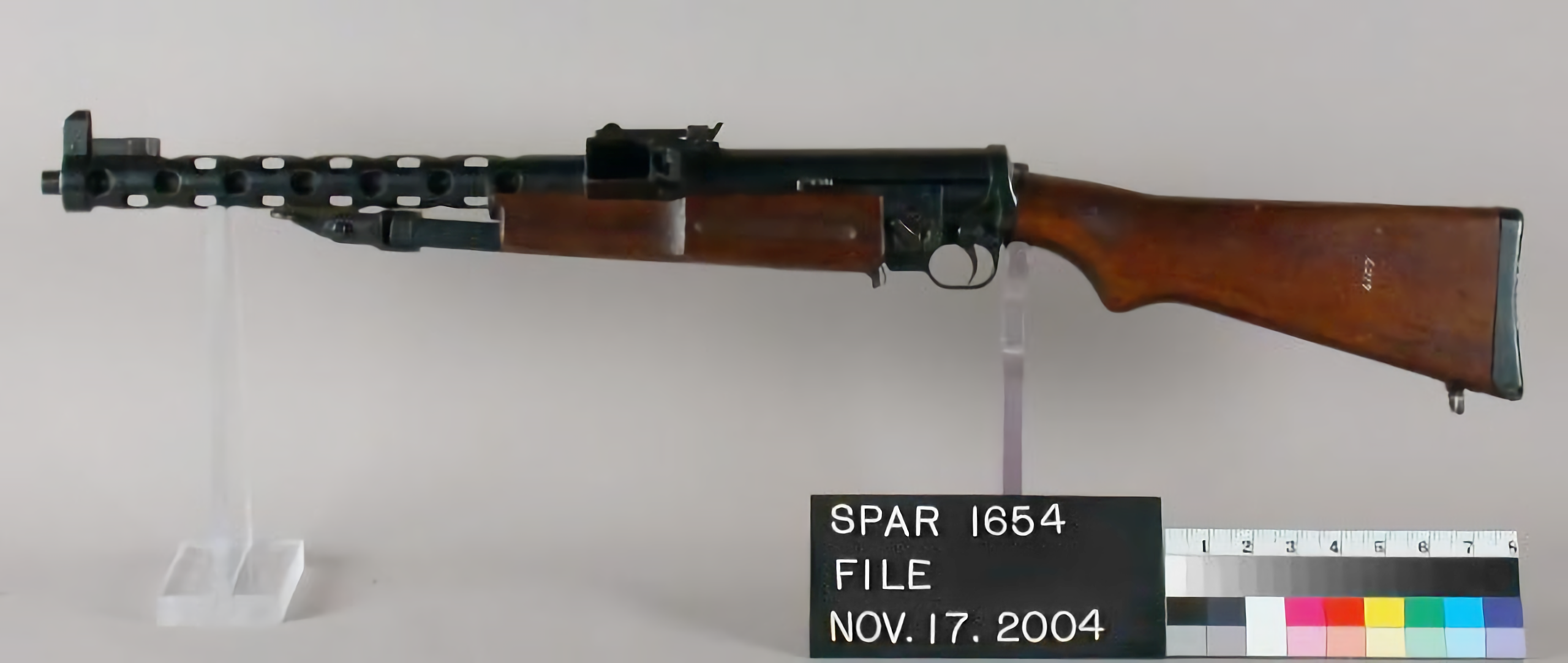 GUN, SUBMACHINE - CZECH SUBMACHINE GUN ZK383 9MM